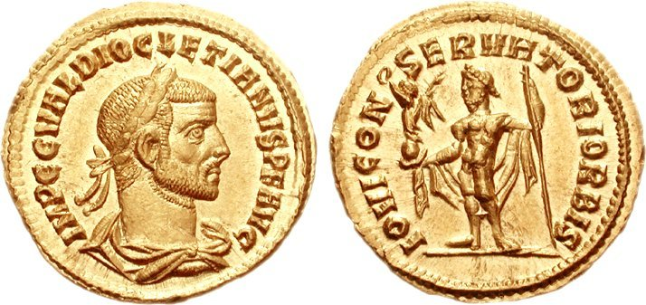 Diocletian. AD 284-305. AV Aureus (4.49 g, 6h). Pre-reform issue. Cyzicus mint. Struck AD 286-287. IMP C C VAL DIOCLETIANVS P F AVG, laureate, draped and cuirassed bust right, seen from behind IOVI CONSE-RVATORI ORBIS, Jupiter standing left, holding Victory on globe in right hand, scepter in left. RIC VI 299; Depeyrot 2/3; Calicó 4524. EF, underlying luster. From a North American Collection. Ex Triton IV (5 December 2000), lot 679.